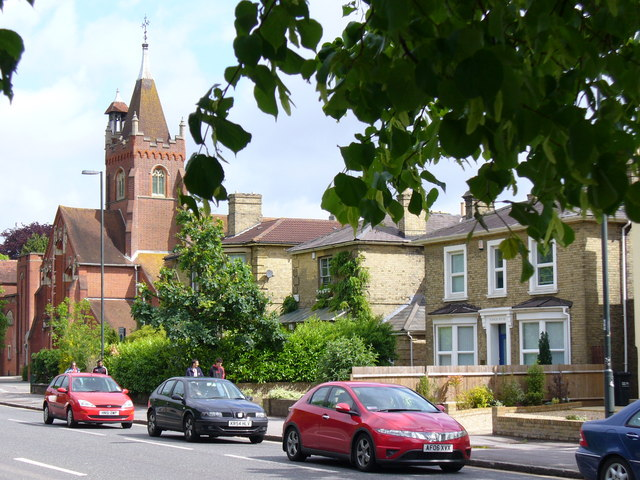 The Avenue, one of the main roads into Southampton, this one carries traffic from Winchester and the north. This is at the Alma Road corner with its distinctive brick spired Avenue St Andrew's United Reformed Church and brick detached houses.